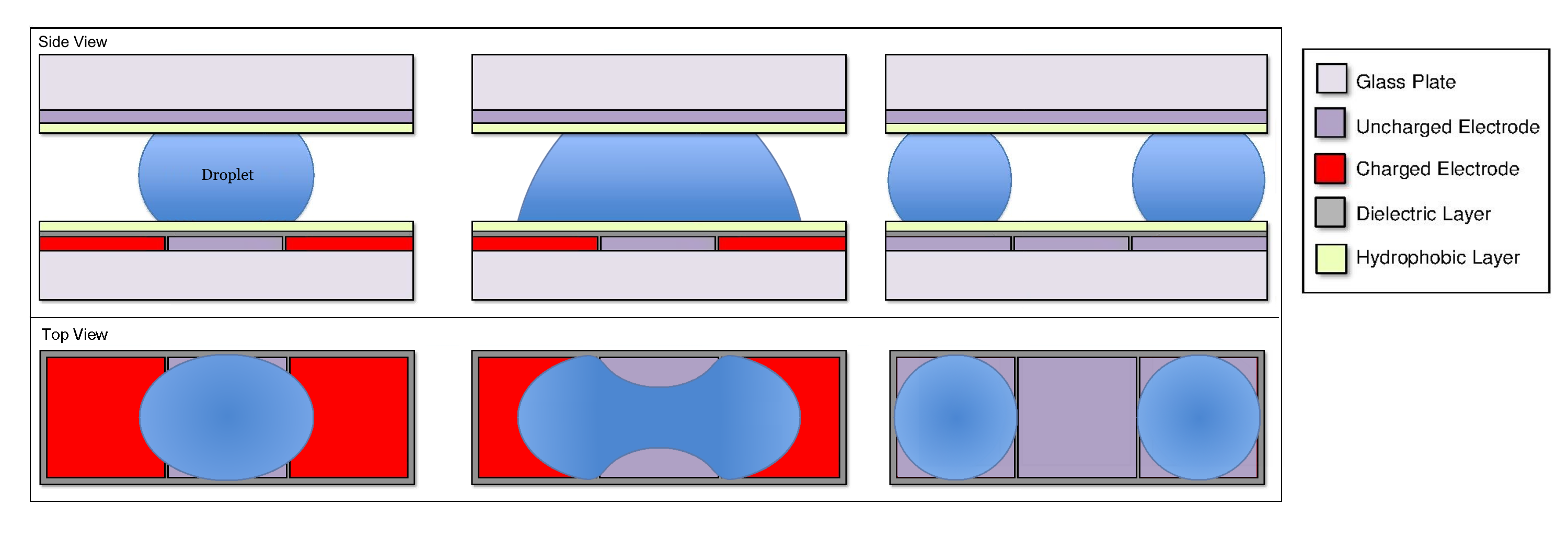 A side and top view of a droplet being split in a microfluidic device. The panels show the progression of time from left to right.